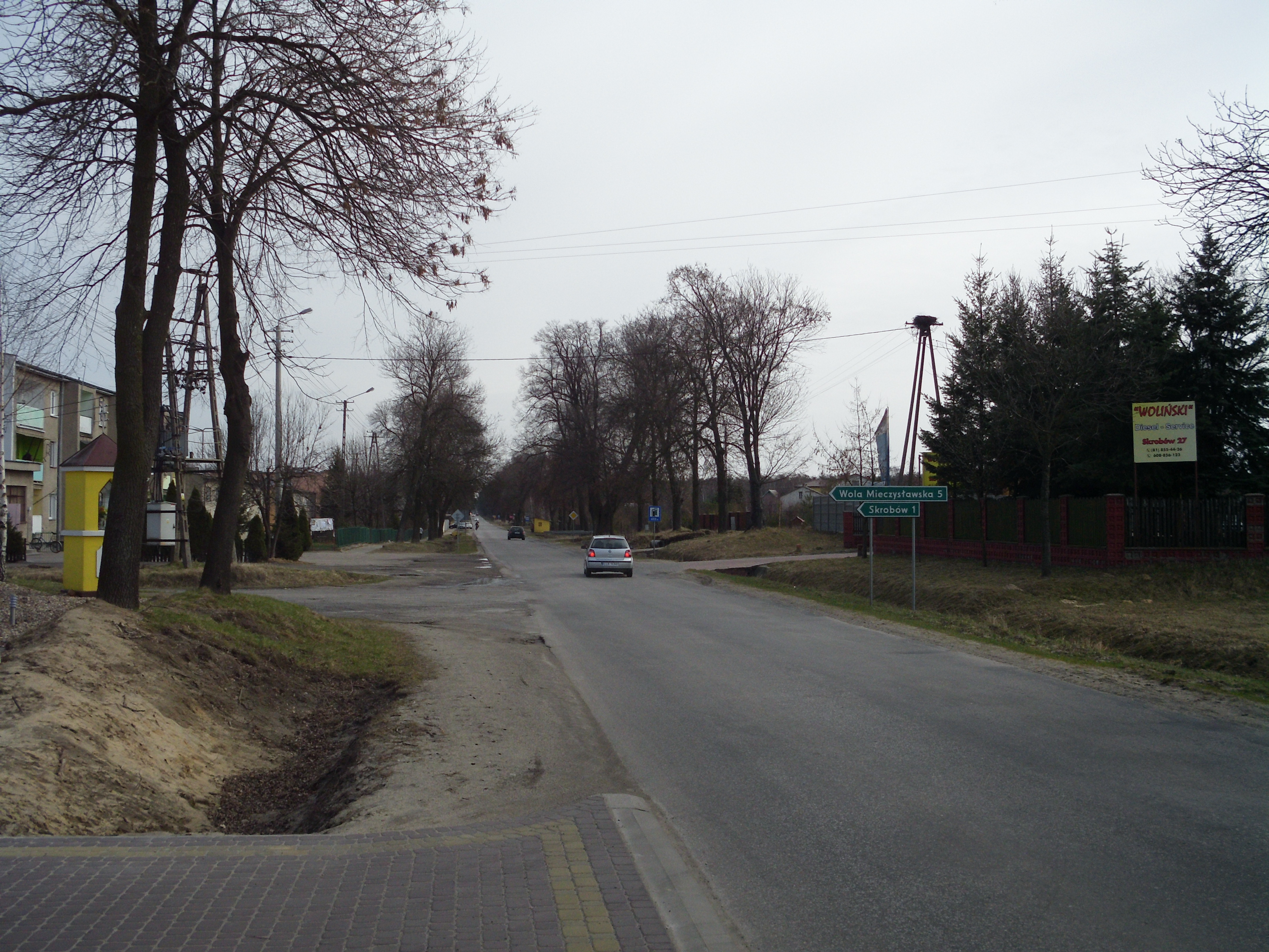 Main road passing through Skrobów-Kolonia, Poland (from the West)